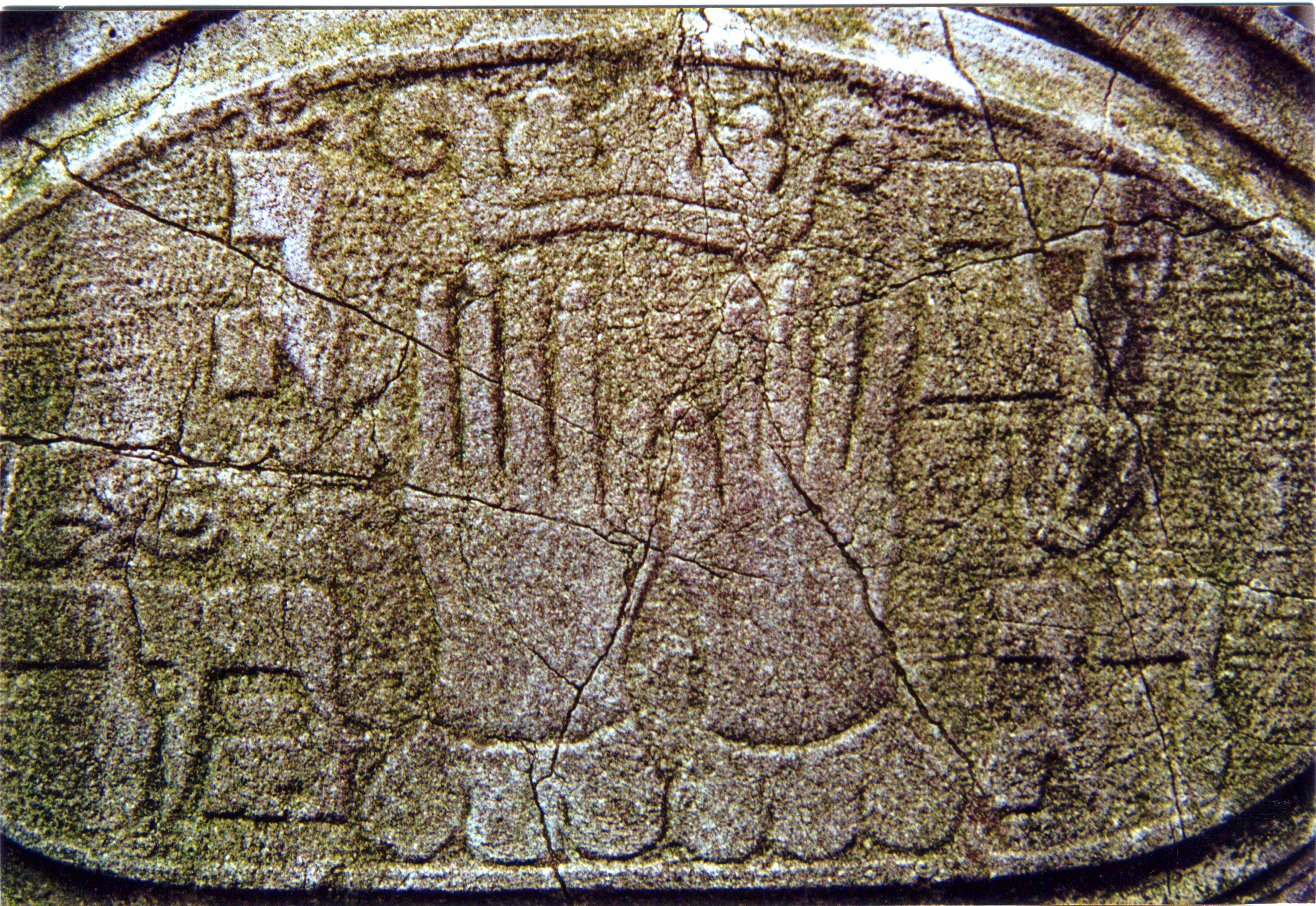 Praha Blessing Hands Of A Cohen